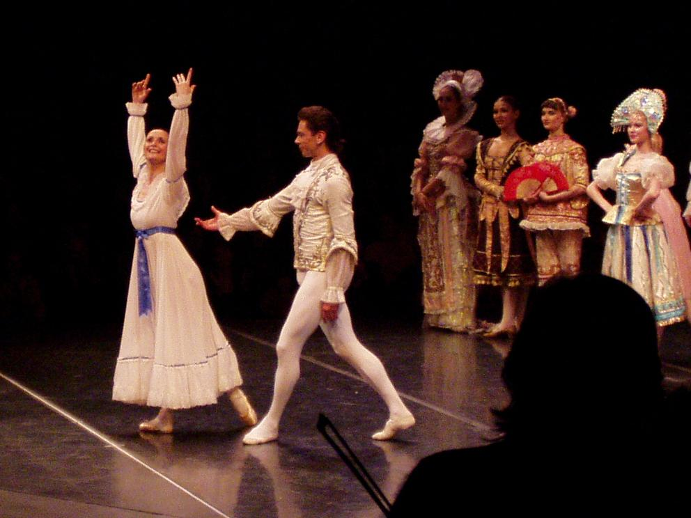 Anna Podlesnaya and Andrei Stelmakhov at the end of the Nutcracker performed by the St. Petersburg Ballet Theatre on their European tour date at the Chichester Festival Theatre.